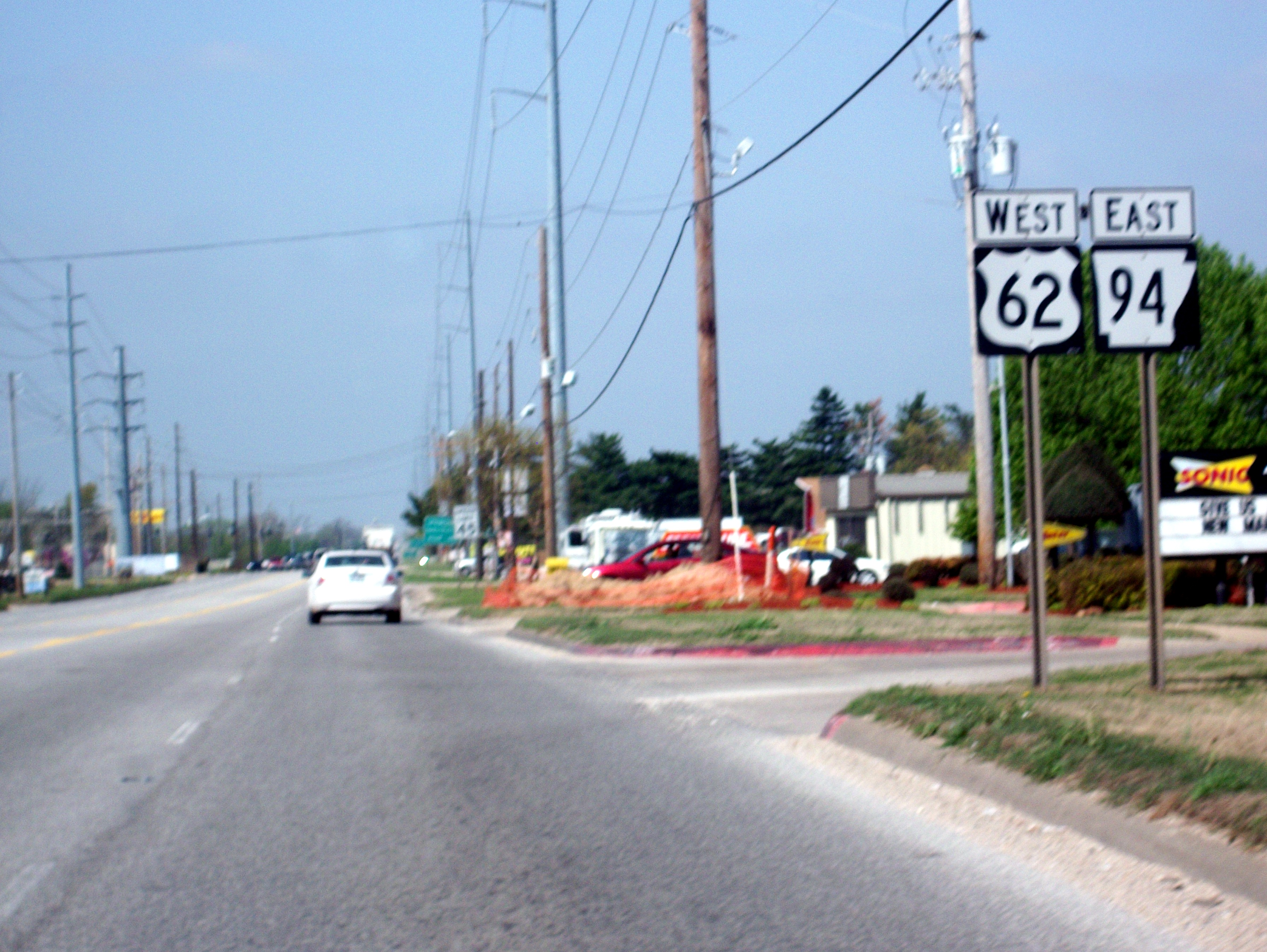 US 62/AR 94 run concurrent in Rogers, Arkansas. Due to realignments, this sign assembly should also have a AR 12 marker.